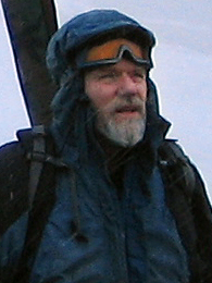 American explorer Dennis Schmitt on Warming Island, a new island created by the retreat of an ice shelf in east Greeland. Photo by John Rudolf